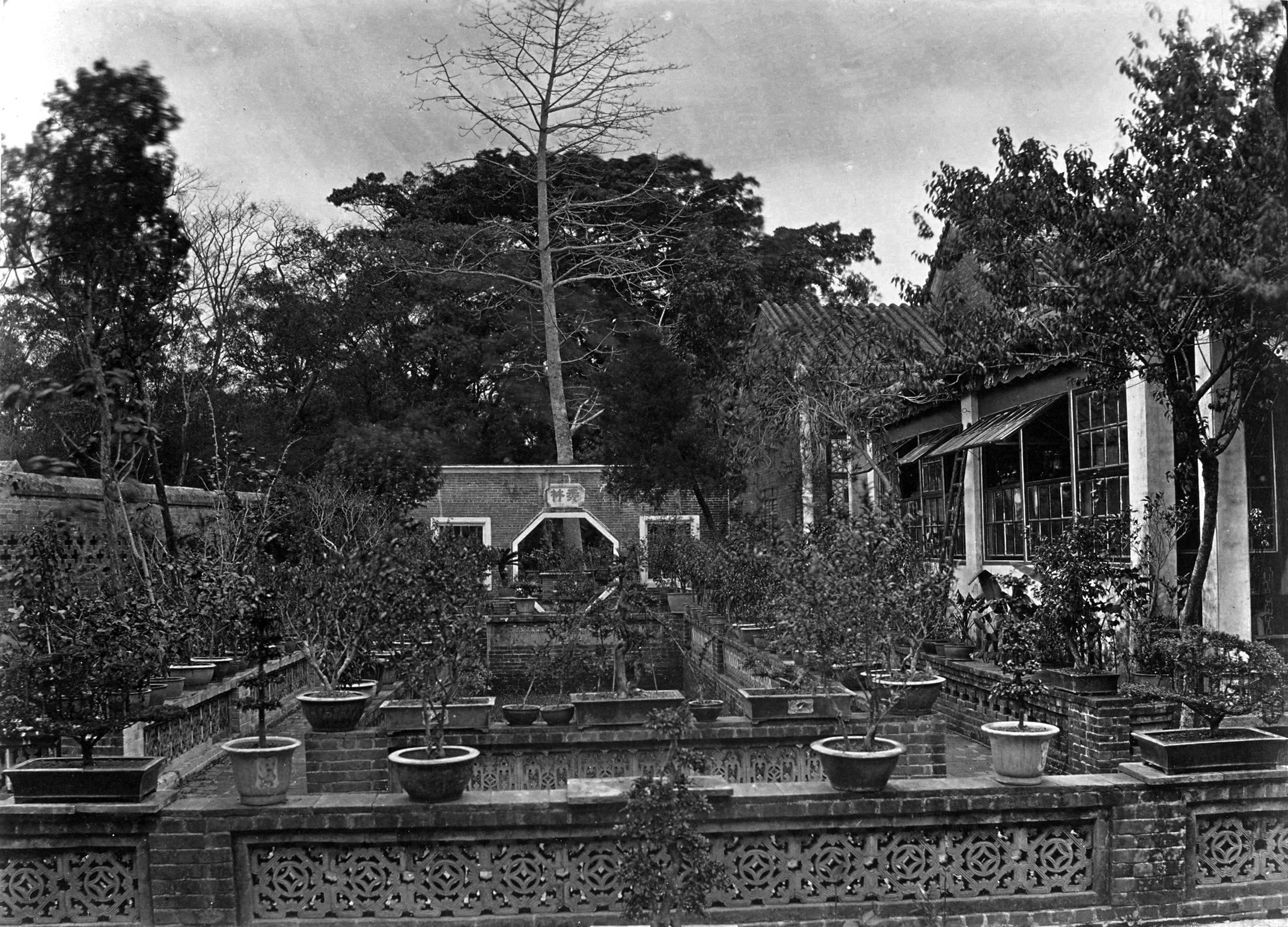 Photograph in From Afong, Photographer.